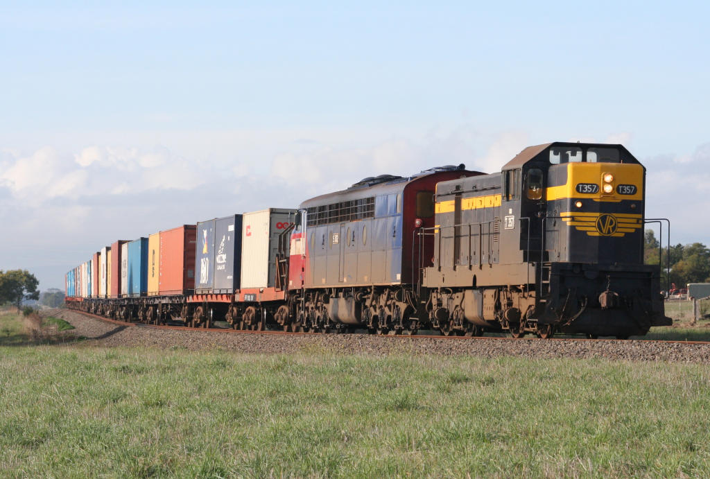 El_Zorro (railway) operated Melbourne to Warrnambool container train, near Warncoort, Victoria, Australia. Locos are Seymour Railway Heritage Centres T357 and company owned S302